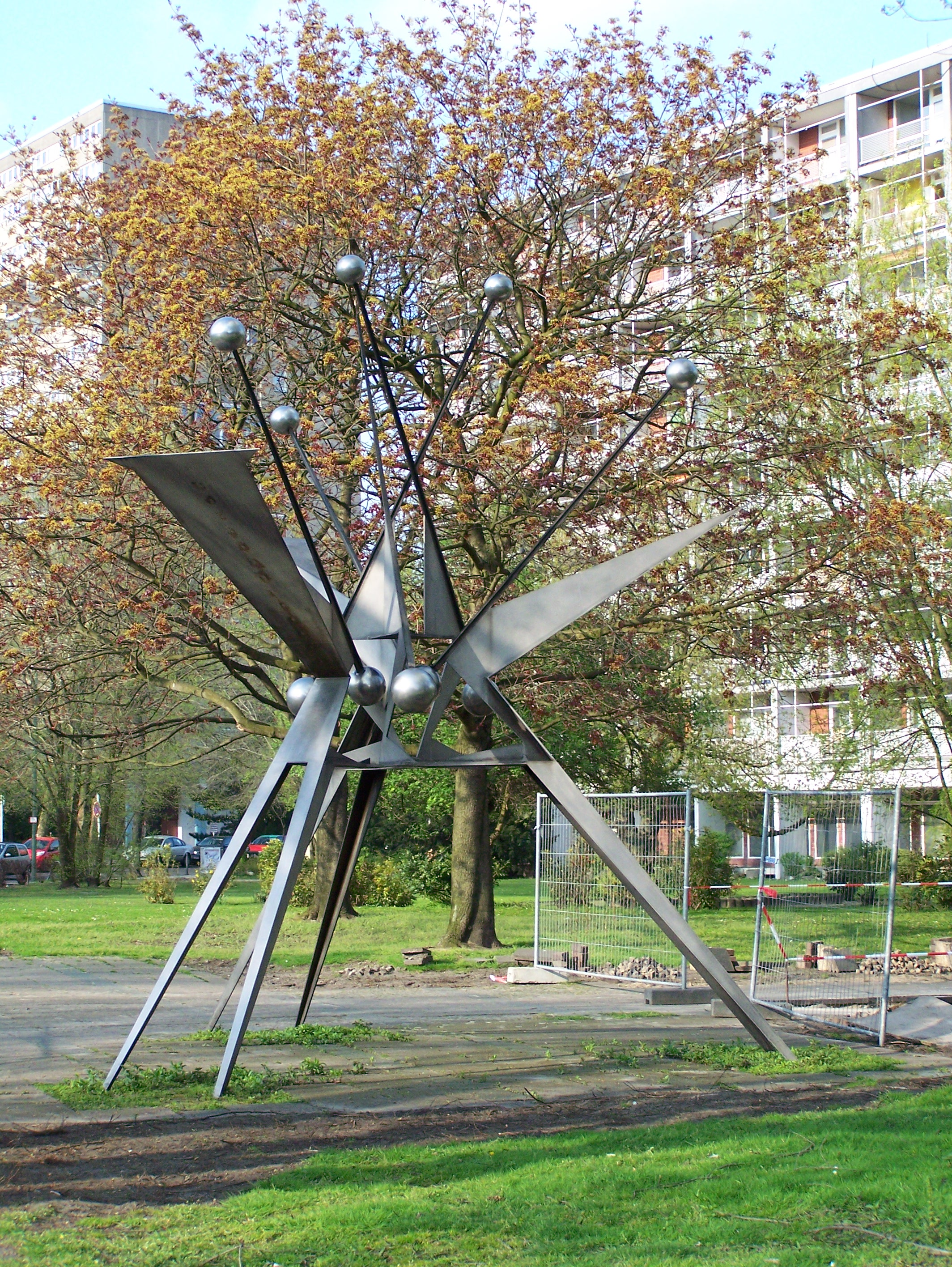 Sculpture without title, made by Hans Uhlmann in 1957 and erected in 1958. This sculpture won the first price in an international contest for a city-sculpture for the city of Berlin. It was also the first sculpture by Hans Uhlmann that made it possible for one to walk through. It's placed at the Hansaplatz in Berlin-Hansaviertel. It's made out of stainless steel, partly with chomite and nickel, and 5 meters high.